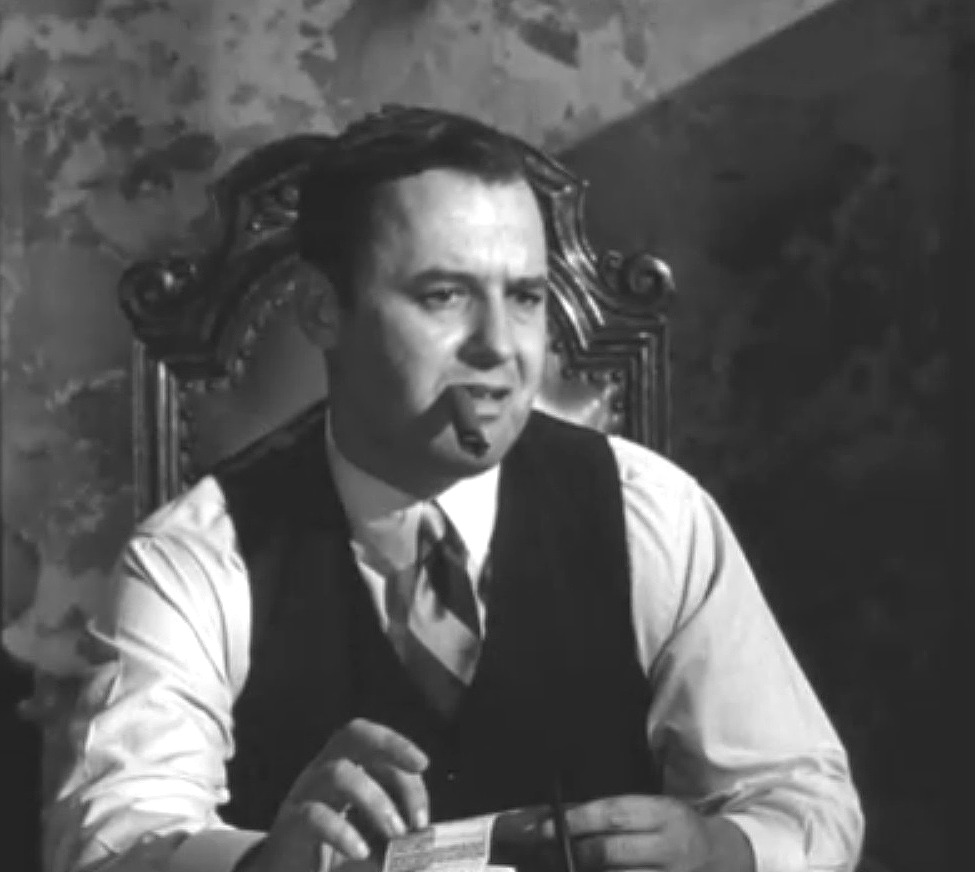 Rod Steiger in Al Capone from the trailer for the film.